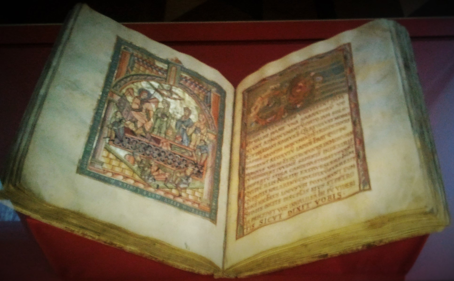 Codex Vyssegradensis exhibited in Clementinum in 2015.